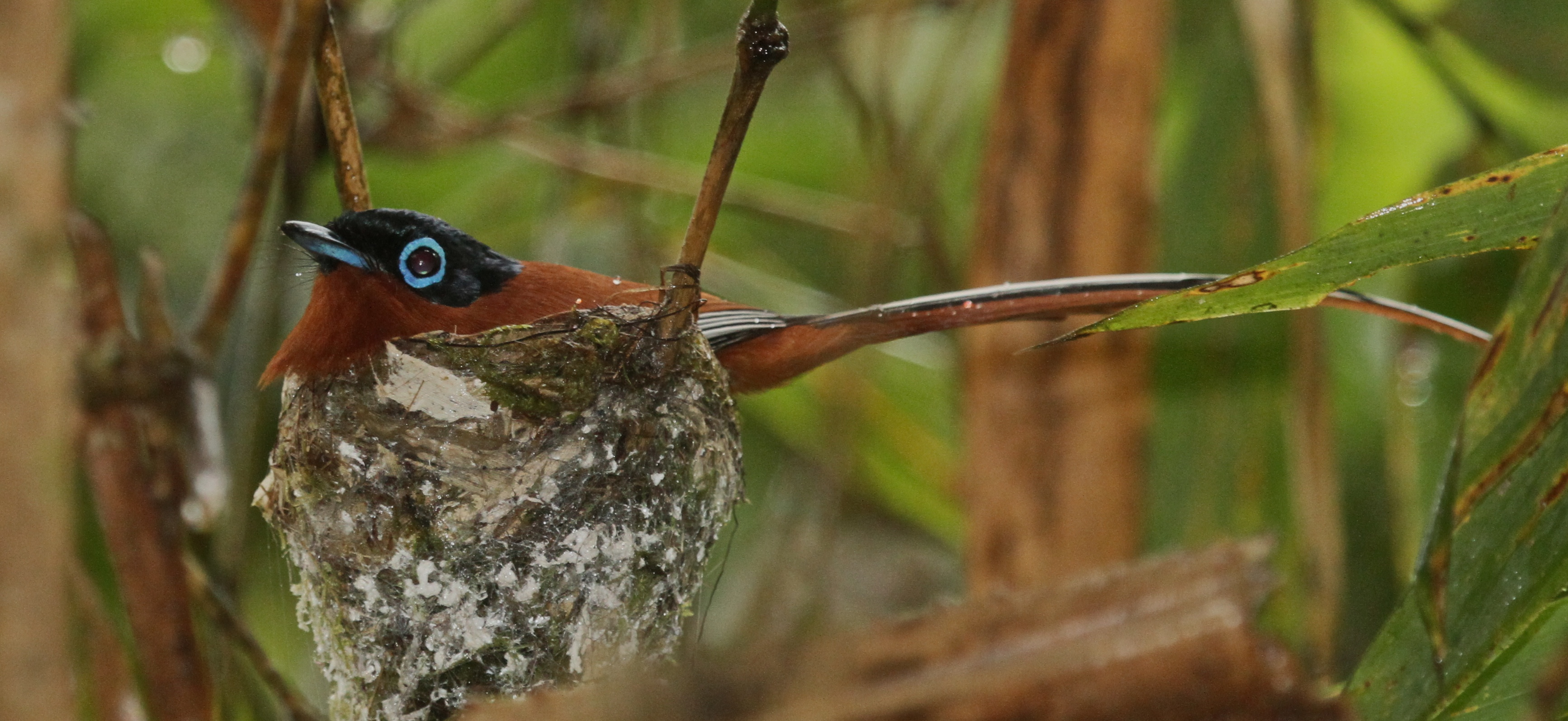 Madagascar Paradise-flycatcher (Terpsiphone mutata) at Marojejy National Park